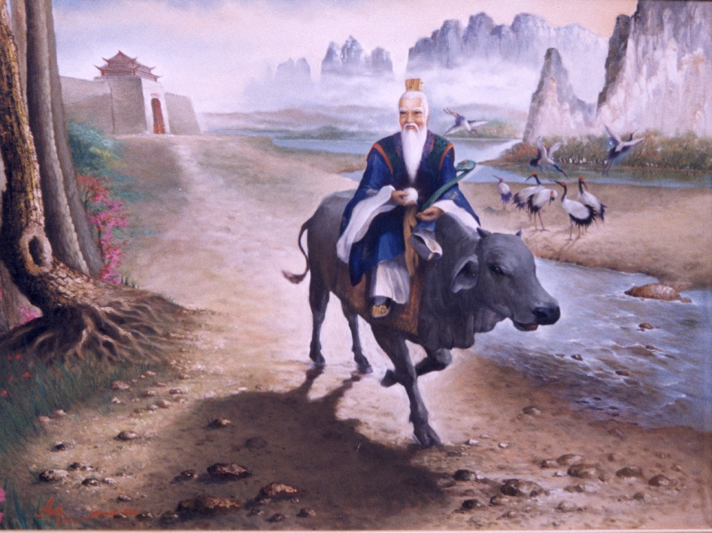 LaoZi also known as ThaySangLawCin